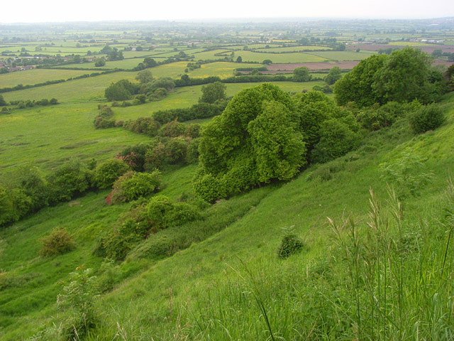 The view from Broad Town White Horse The very steep scarp provides a wide-ranging vista over the relatively flat north Wiltshire countryside and its patchwork of mostly pastoral fields.